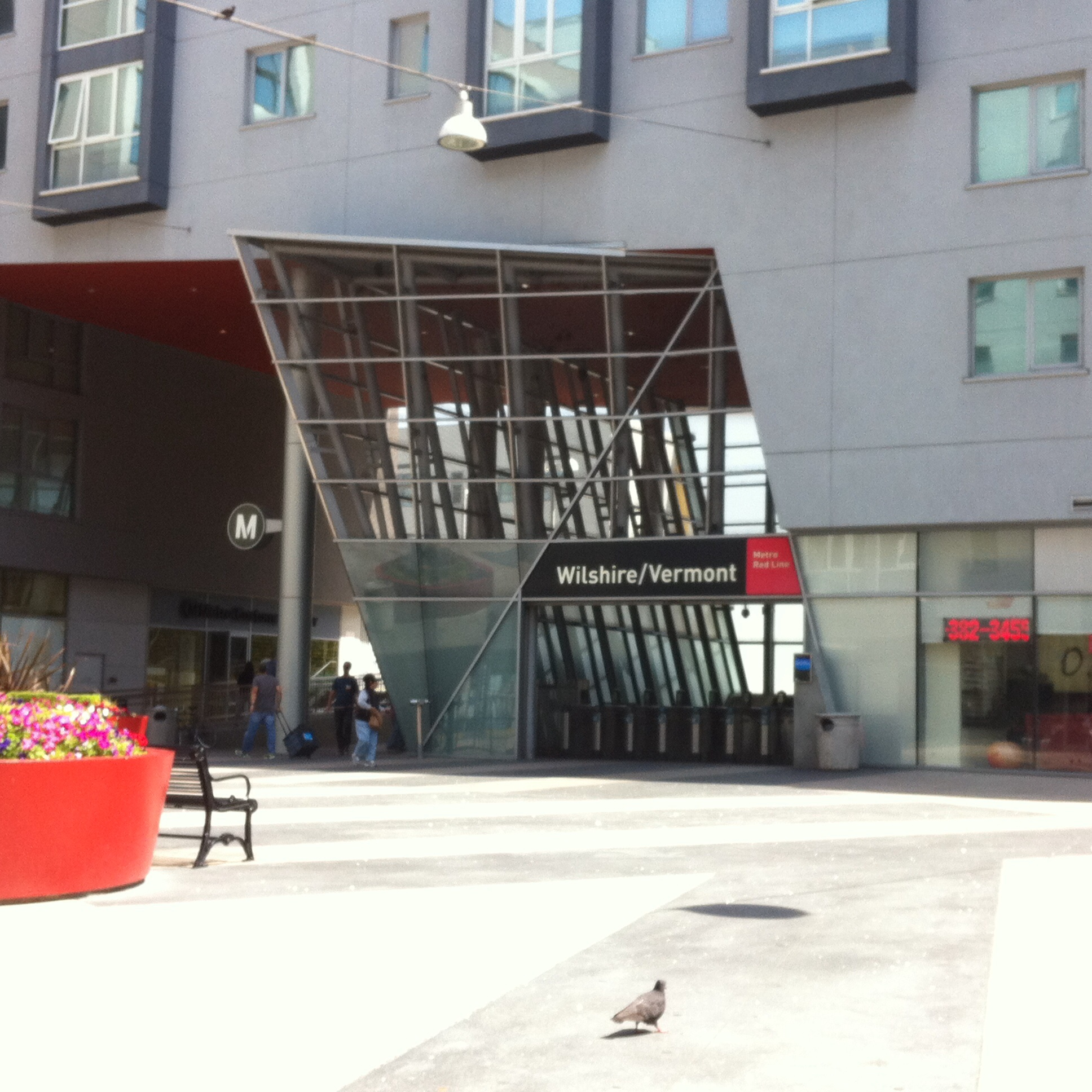 The main entrance of Wilshire/Vermont Station.